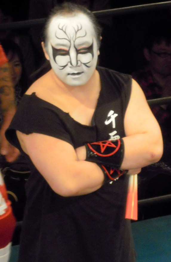 Japanese professional wrestler,Kanjyuro Matsuyama. Osaka Pro Wrestling Apr 16 2011 Osaka Minami Move On Arena.